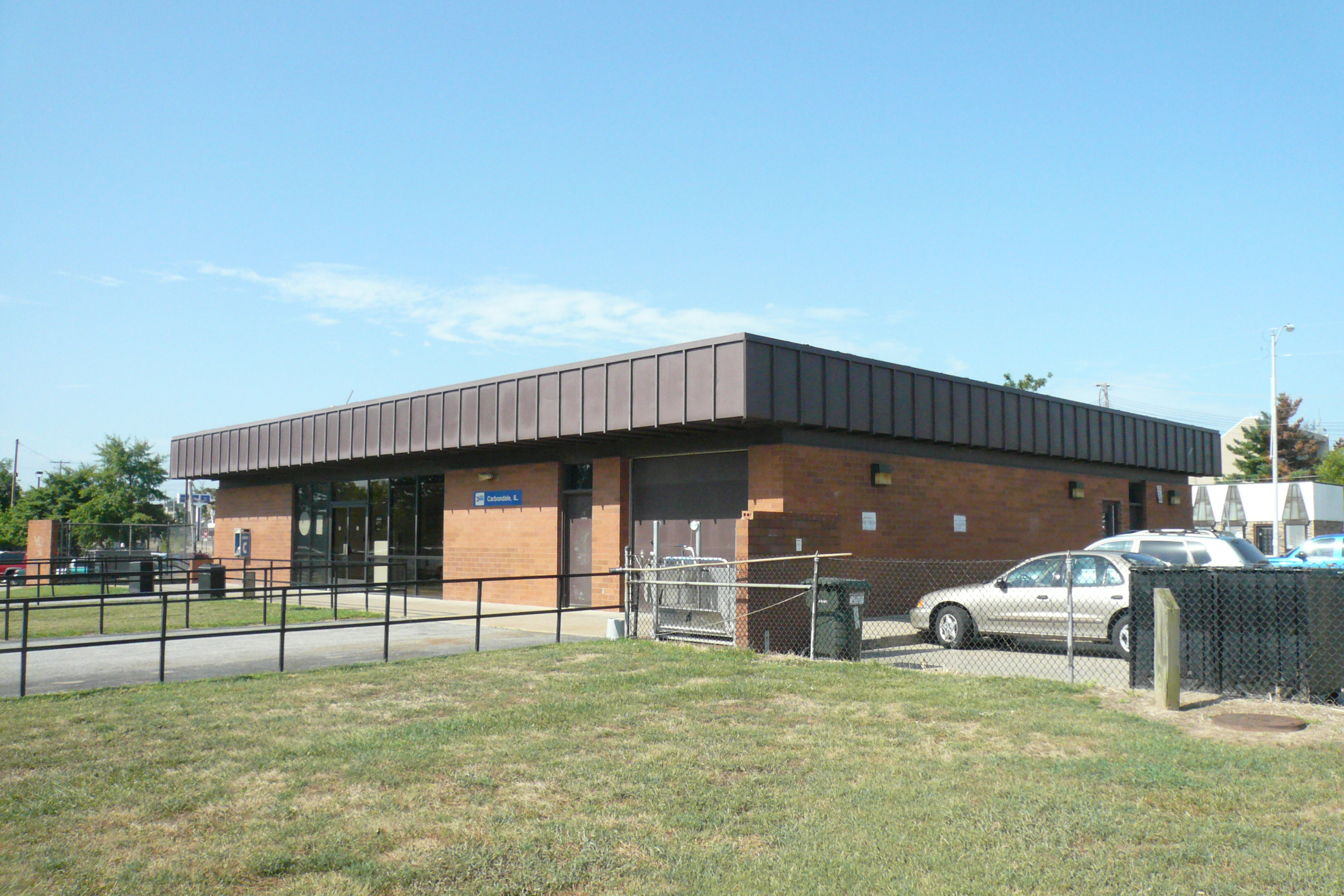 As seen from the passenger platforms.